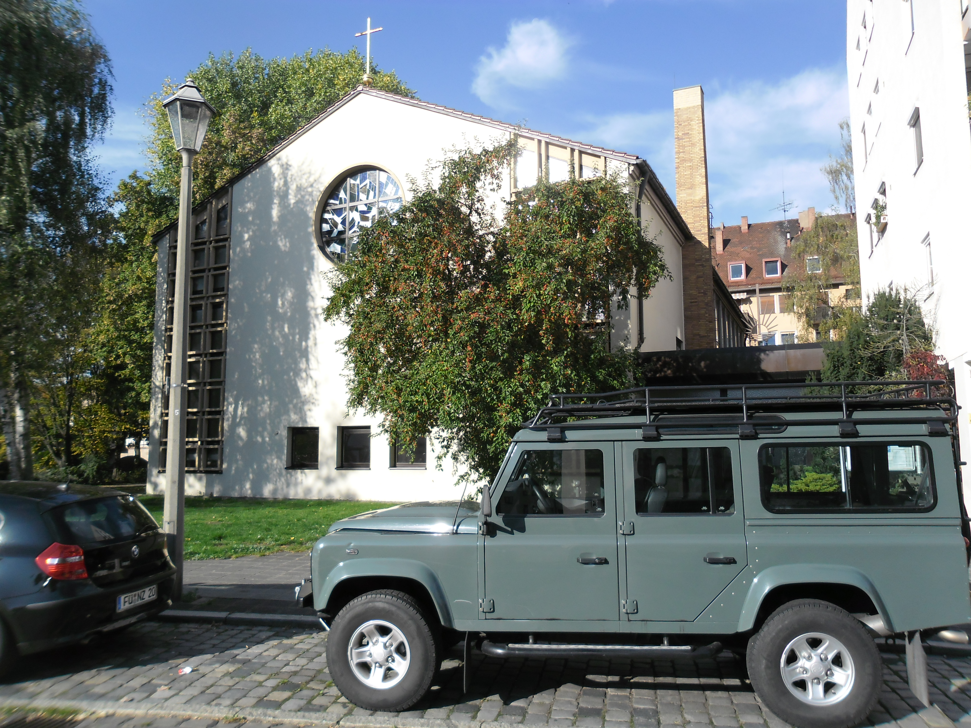 New Apostolic Church Nuremberg